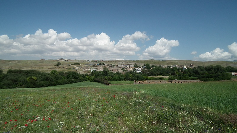 Doudaran village in Ardabil , Iran